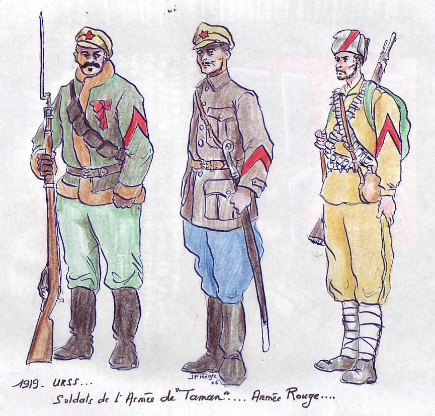 First military ranks of the Soviet Armed Forces since August 1918, here “private soldiers” of the Red Guard and Taman Army.